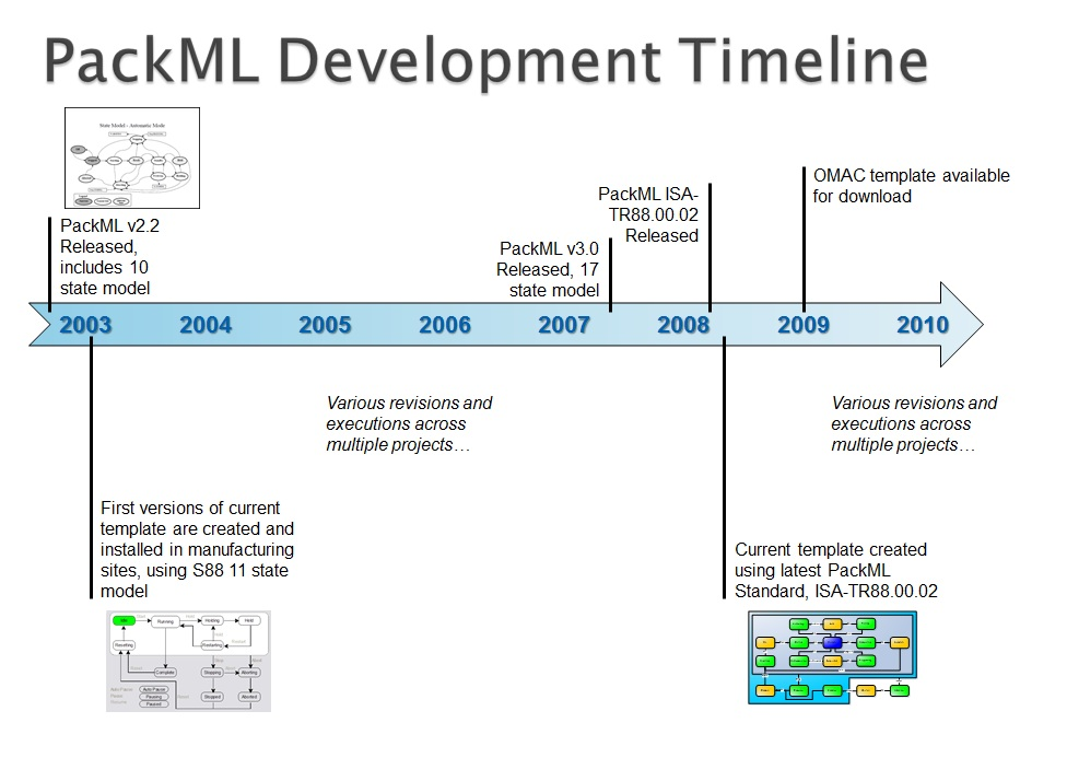 Timeline for PackML Development